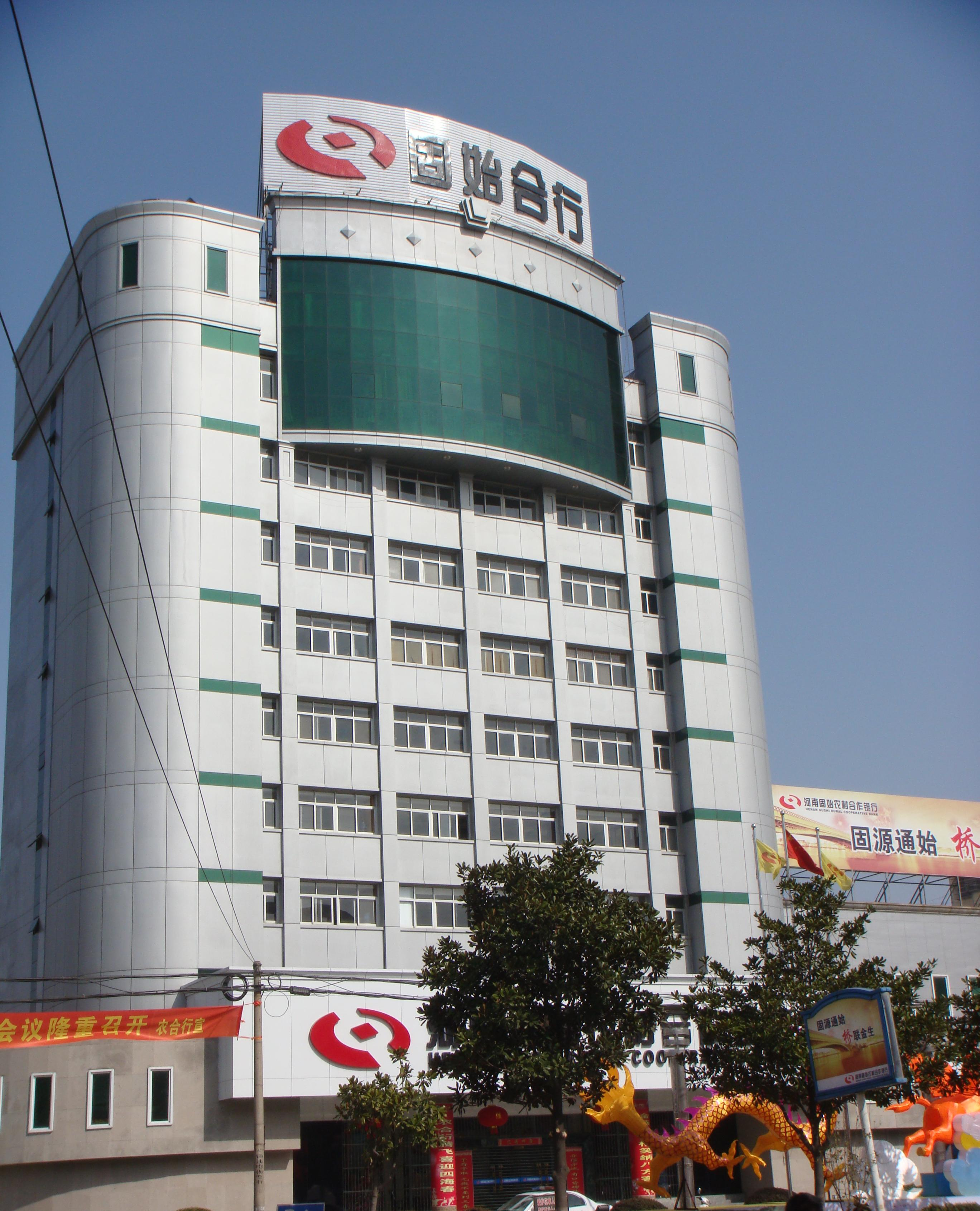 Henan Gushi Rural Cooperative Bank 中文（中国大陆）: 河南固始农村合作银行总部外景